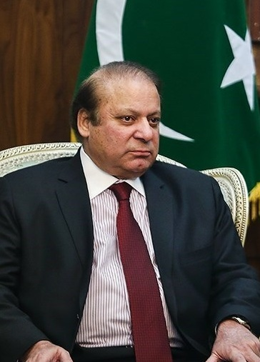 Pakistani Prime Minister Nawaz Sharif during a state visit of Iran